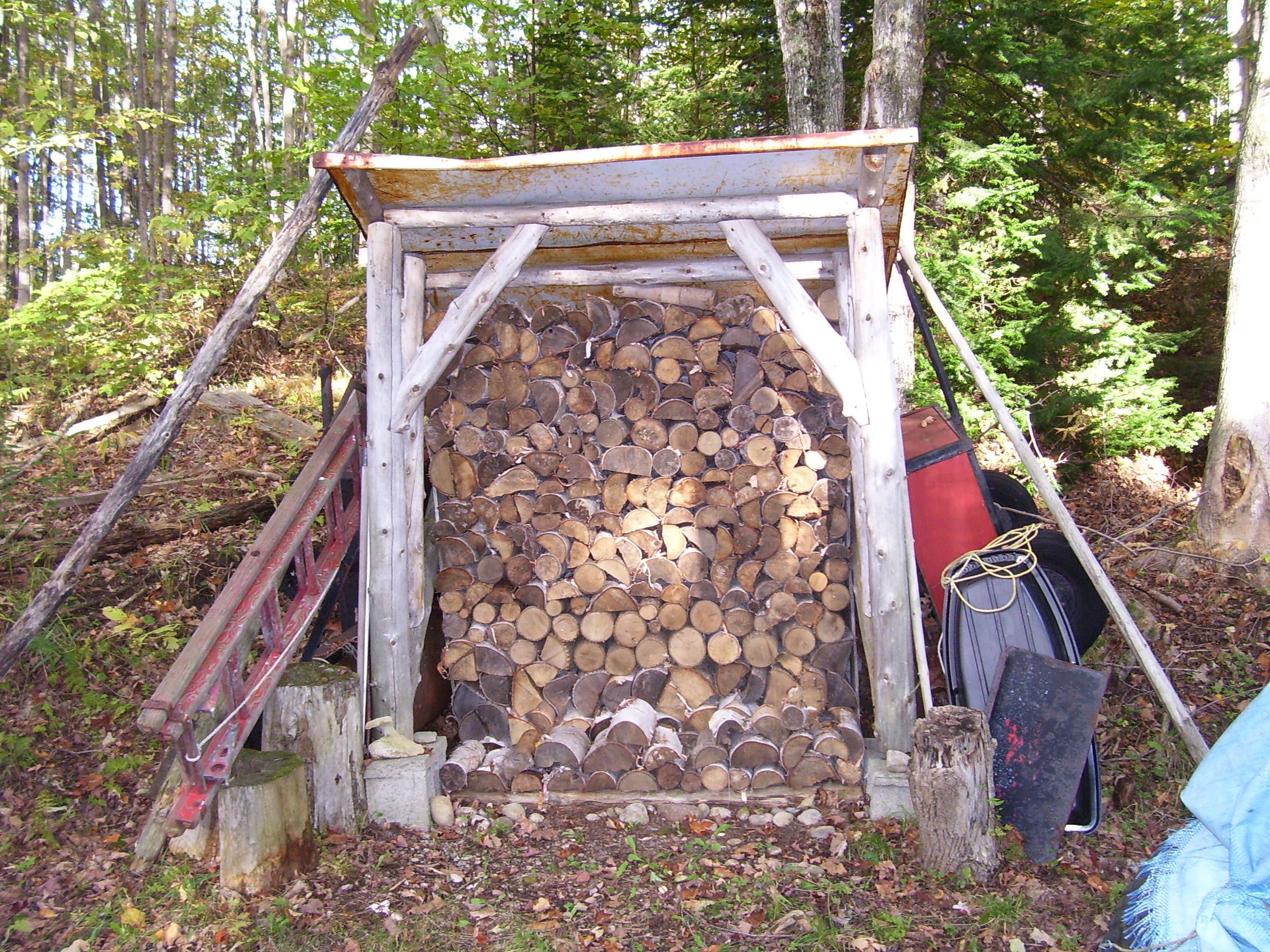 You know what? i've thought the exact same thing... Wouldn't it be cool to have a mine shaft here! The shed holds about 1/4 of a chord, or, it's three stacks deep, the first stack tops in around 5ft. tall. The second and third at 6.5 and 7ft., all stacks are perhaps 4ft. wide. That will last us: several weekend visits in the fall, a week over the Christmas break (including melting the logs that make up the cabin walls), and one week over the March break. If it's cold on the Victoria Day weekend in May you start regretting not wearing that sweater back in December!